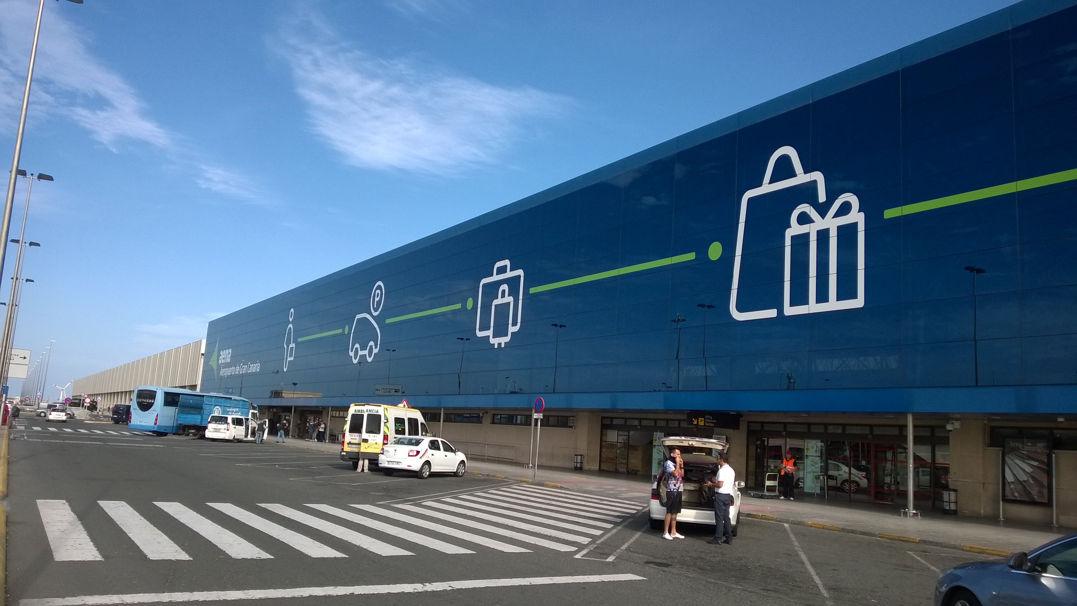 Gran Canaria Airport terminal